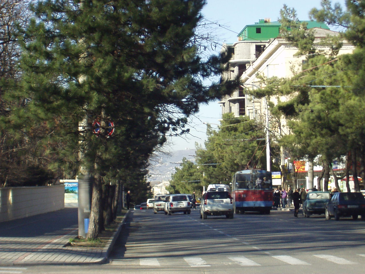 A street in Novorossiysk